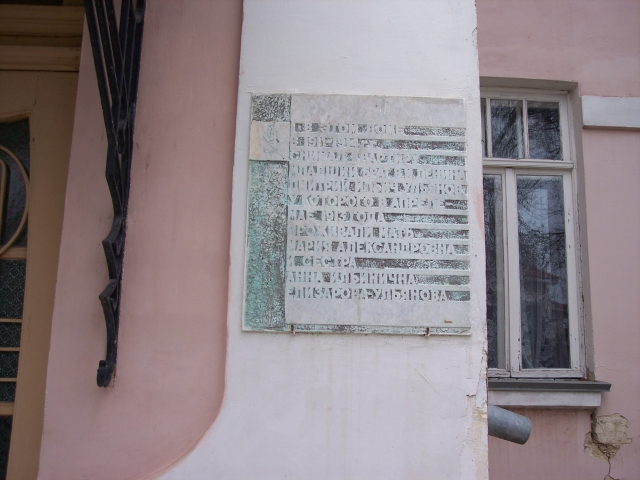 Memorial plate on the House where Ulianov's (Lenin) Family stayed in 1911-1914, Generala Gobacheva St., 5, Feodosia, Crimea, Ukraine